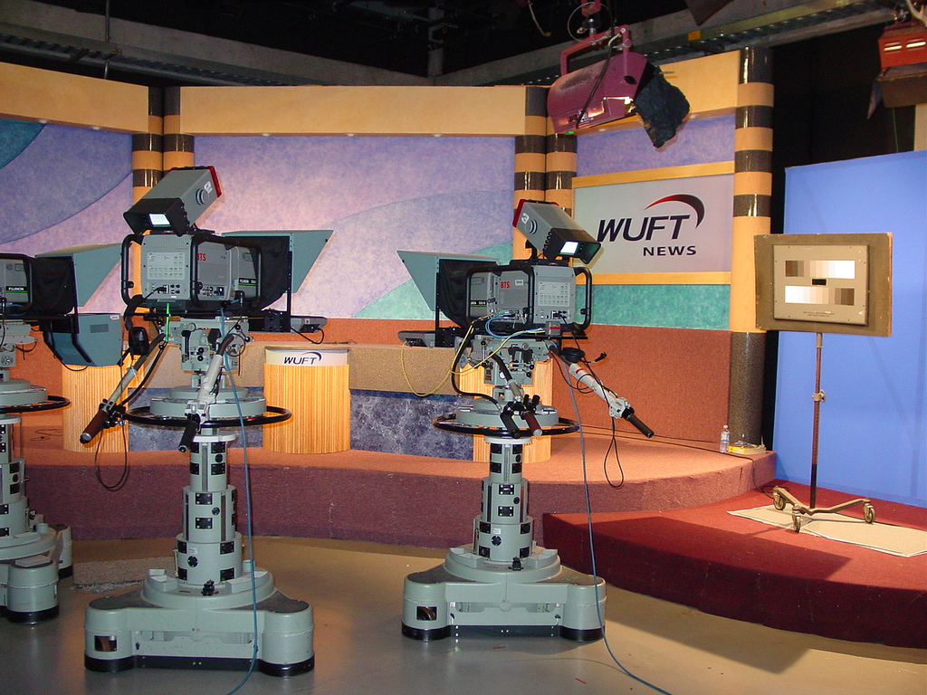 Picture of the WUFT (TV) set